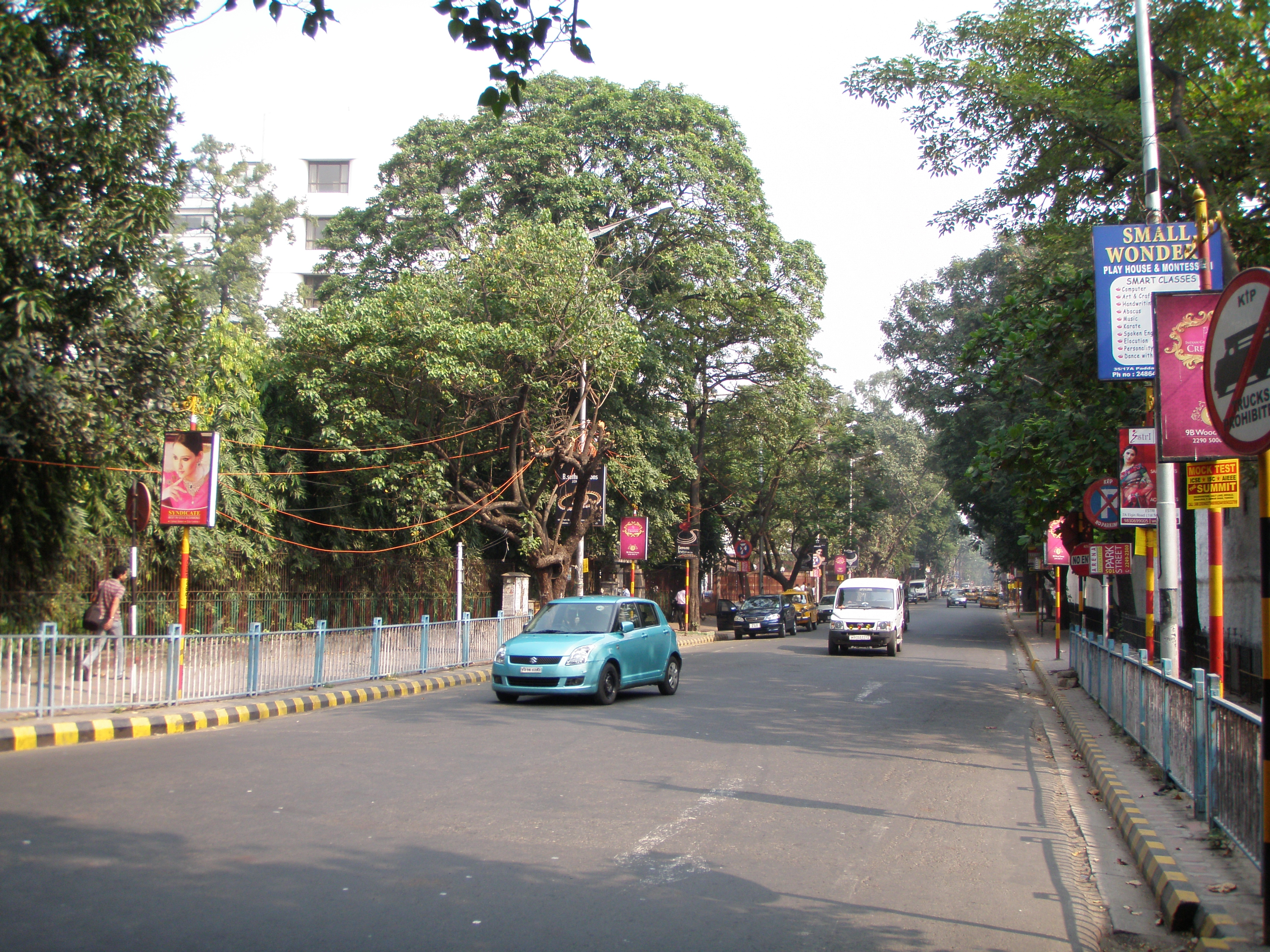 This media file is uploaded with India loves Wikipedia event. OLYMPUS DIGITAL CAMERA